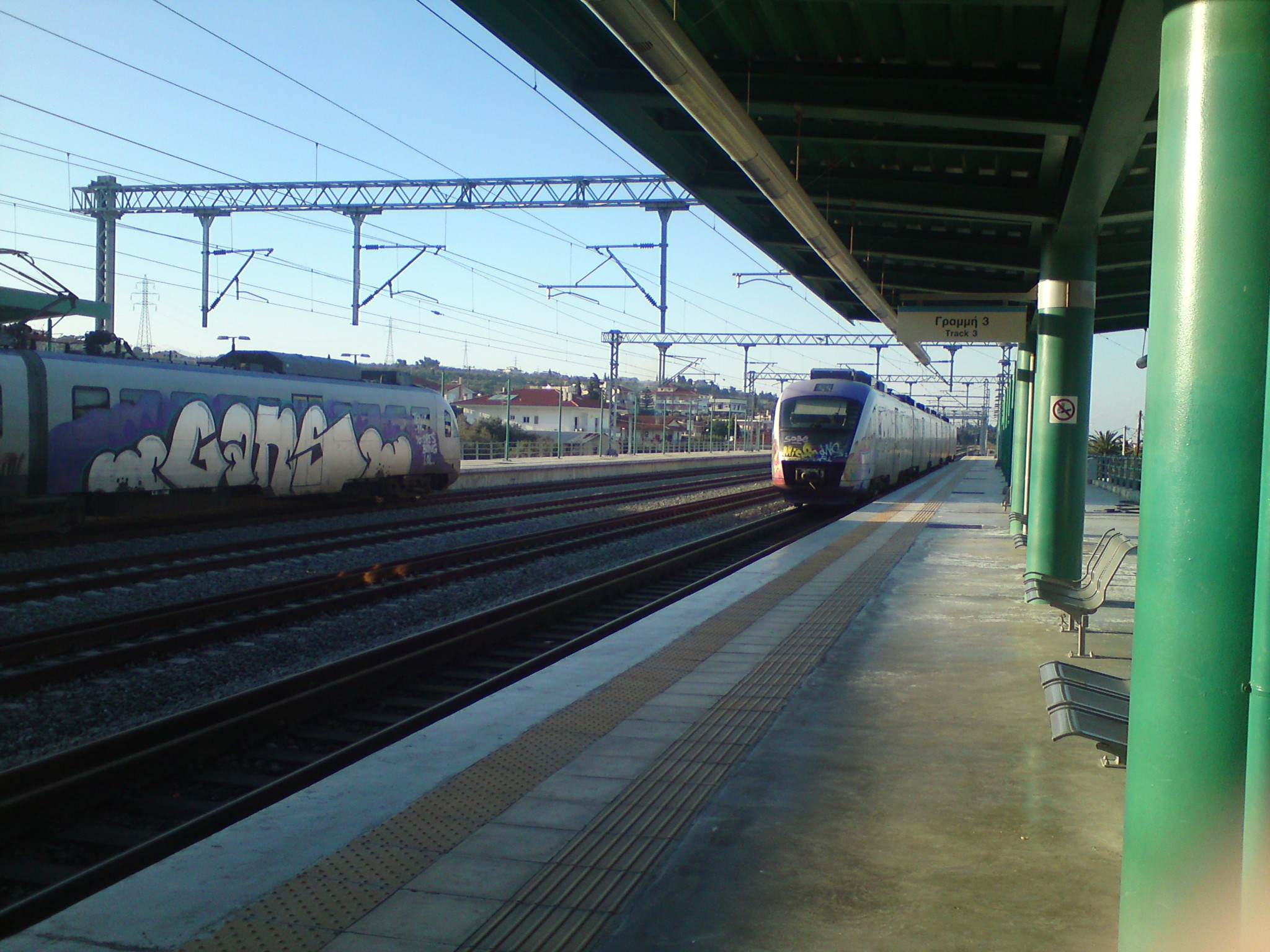 View of two Siemens Desiro (OSE class 660) trains at Kiato suburban railway station in Greece